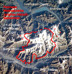 Satellite photo of Unesco World Heritage Site Swiss Alps Jungfrau Aletsch. Marked are the boundaries (Perimeter) of the world heritage site and some important objects: The mountains Bietschhorn, Eiger (E), Mönch (M) and Jungfrau (J), the Aletsch Glacier (Aletsch Gletscher), Lake Brienz (Brienzer See), the Rhône valley (Rhonetal) and the cities of Interlaken and Brig. The red plus signs indicate the area, where the world heritage site might be enlarged soon.